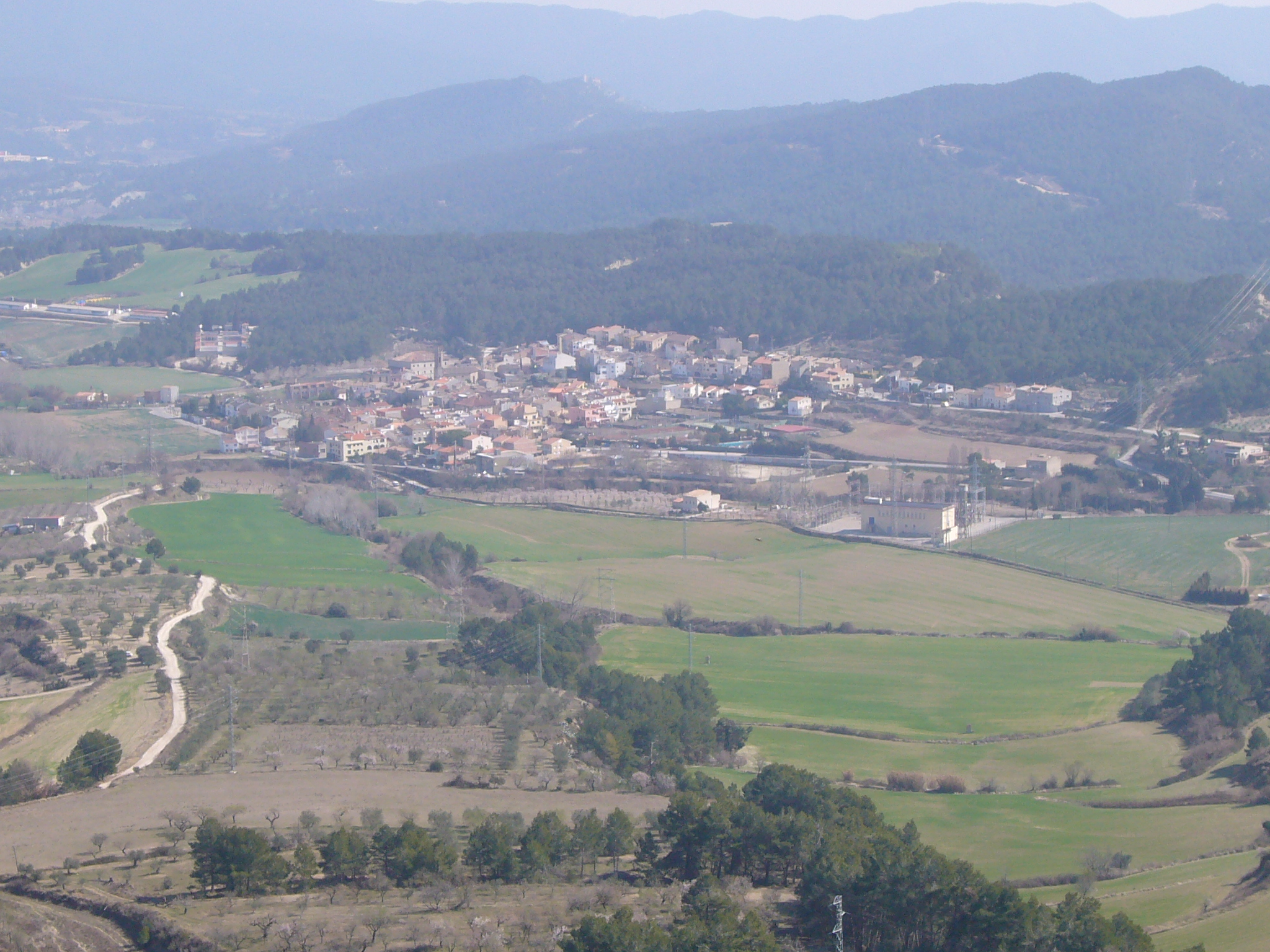 Santa Margarida de Montbui, view from la tossa